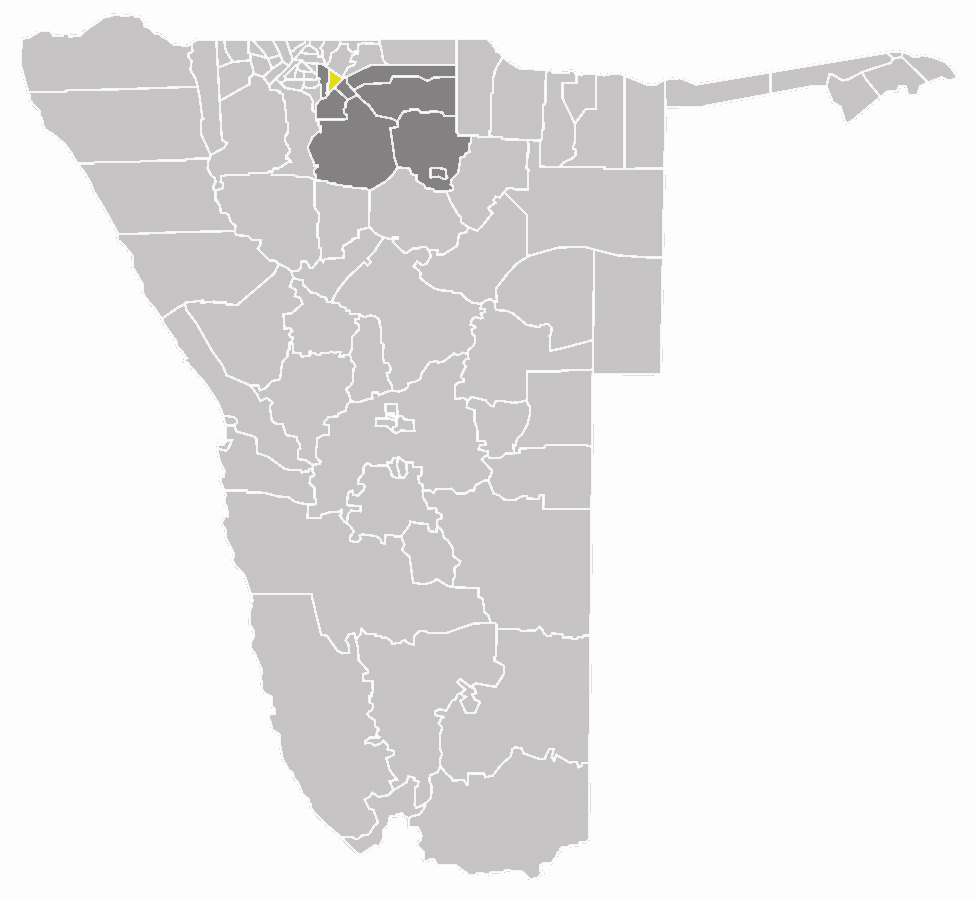 map of the Onayena constituency within the Oshikoto region, Namibia